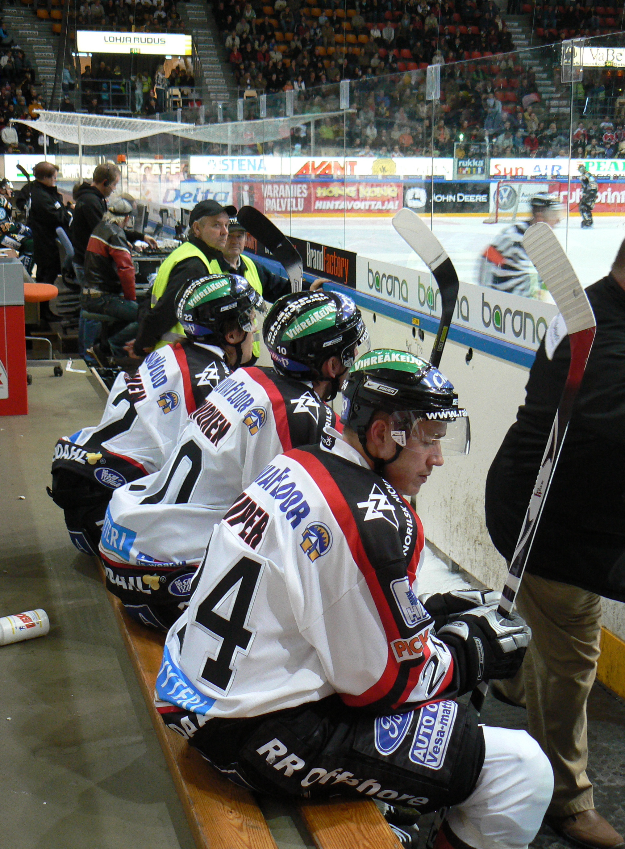 In an SM-liiga game against Ässät Pori, Teemu Jääskeläinen of Ilves Tampere recieved a 5 minute major penalty (as well as a match suspension) for checking from behind but Ässät managed to send three of their players to the box before Jääskeläinen's penalty was over.